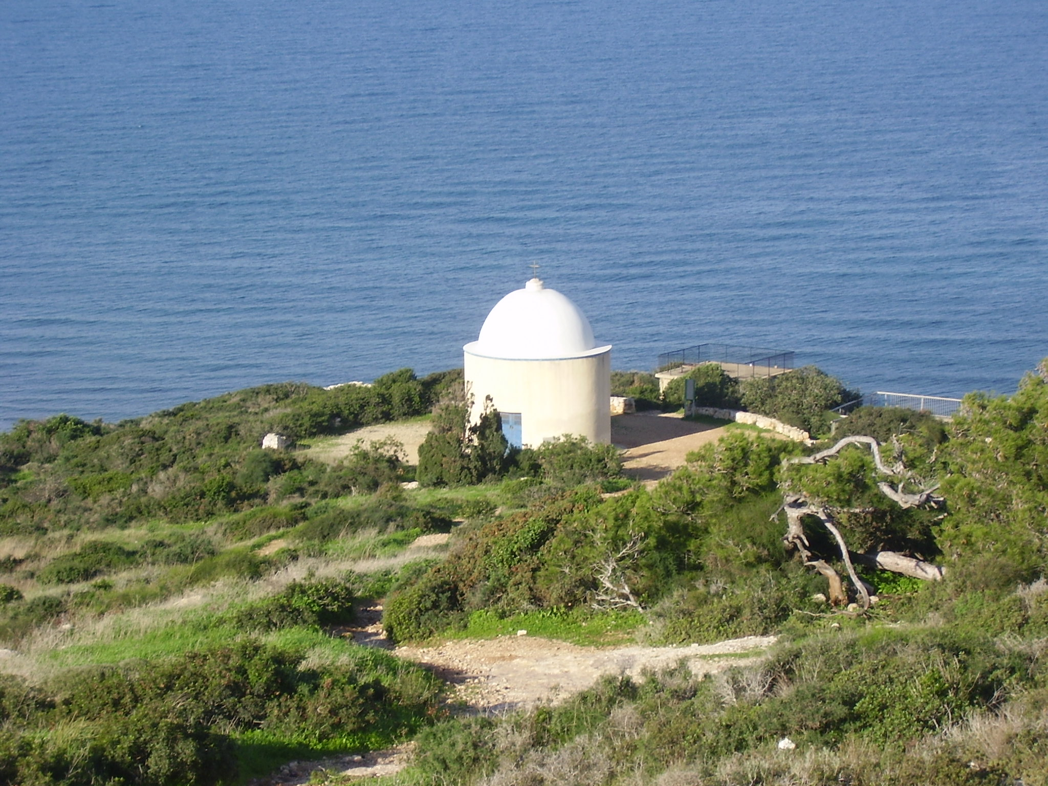 Sacred Heart capella in Haifa